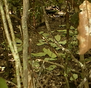 Display-court of a Tooth-billed Catbird.